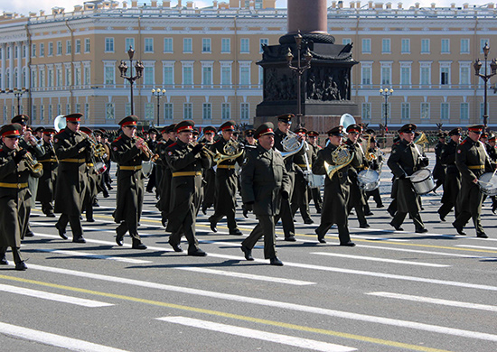 The orchestra of the Western MD during the rehearsal of the victory parade in St. Petersburg.